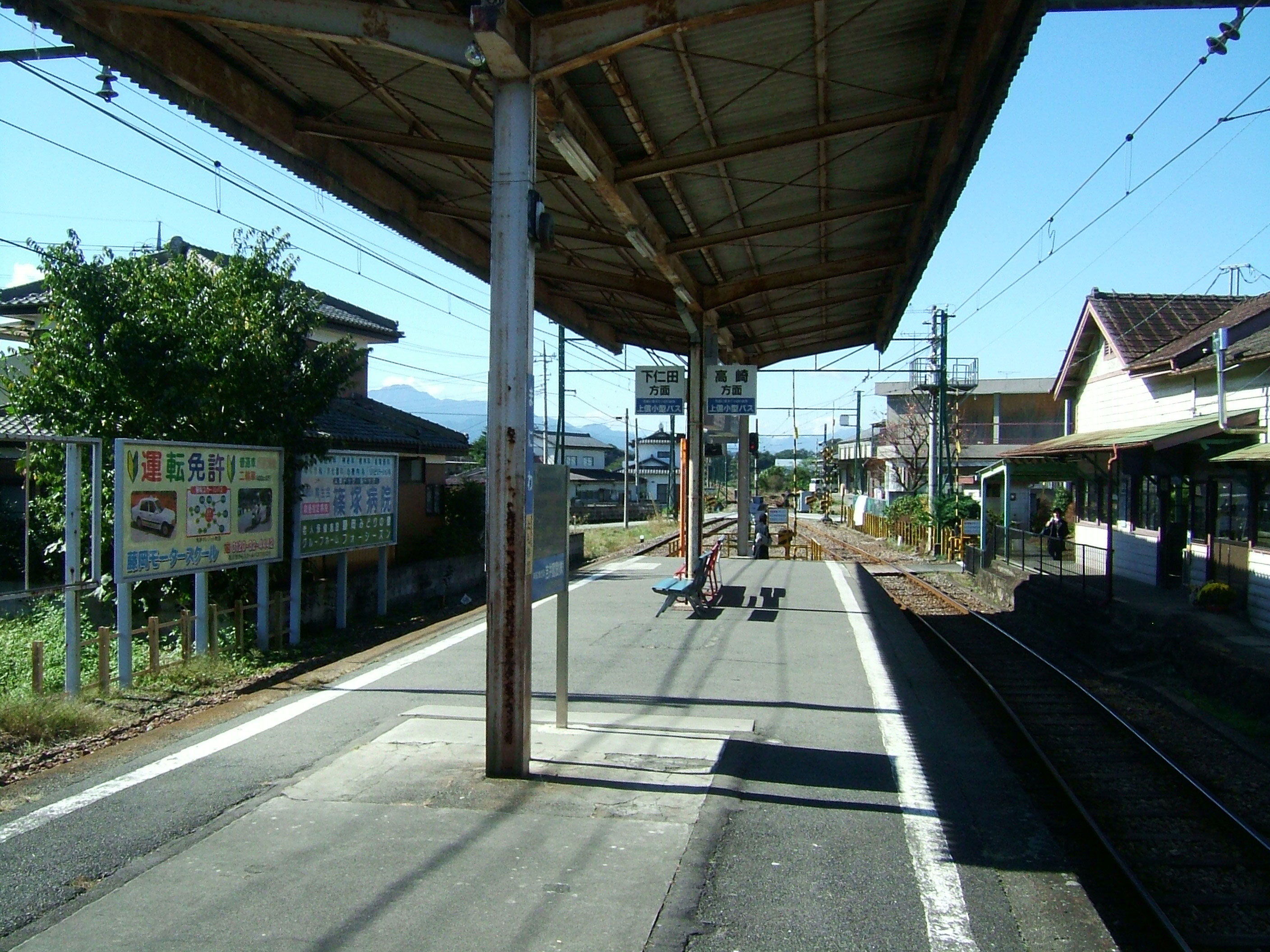 Maniwa Station platform (Jōshin Dentetsu Jōshin Line)